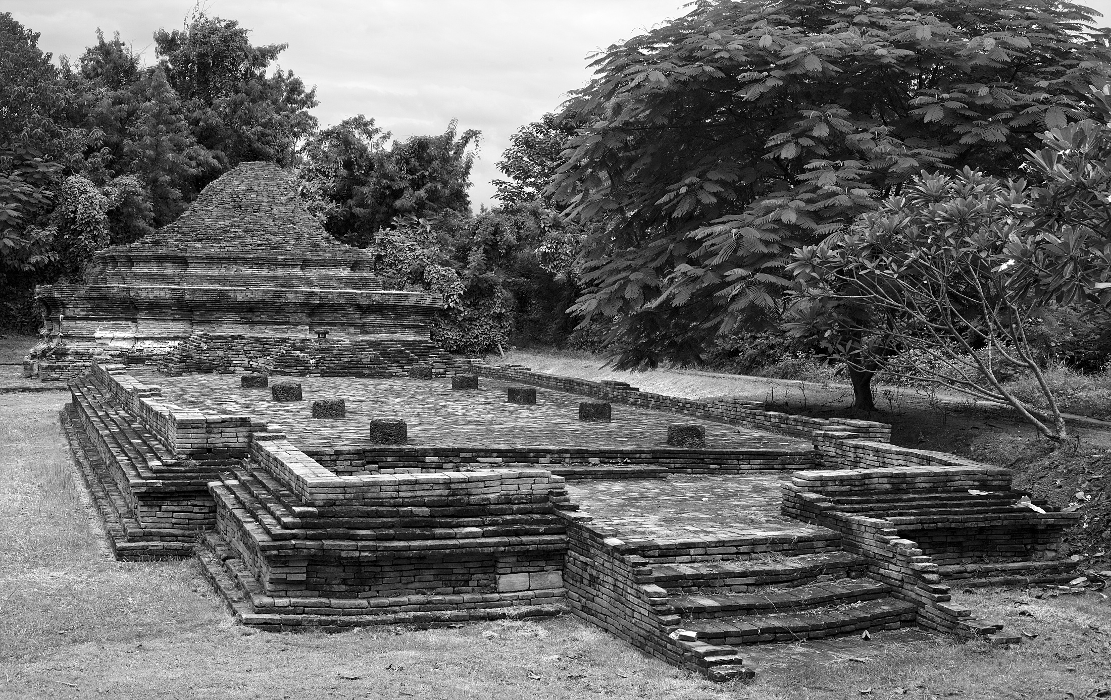 View from the north of Wat Thatkhao's westernmost structure. Wiang Kum Kam archaeological site, Chiang Mai, northern Thailand.